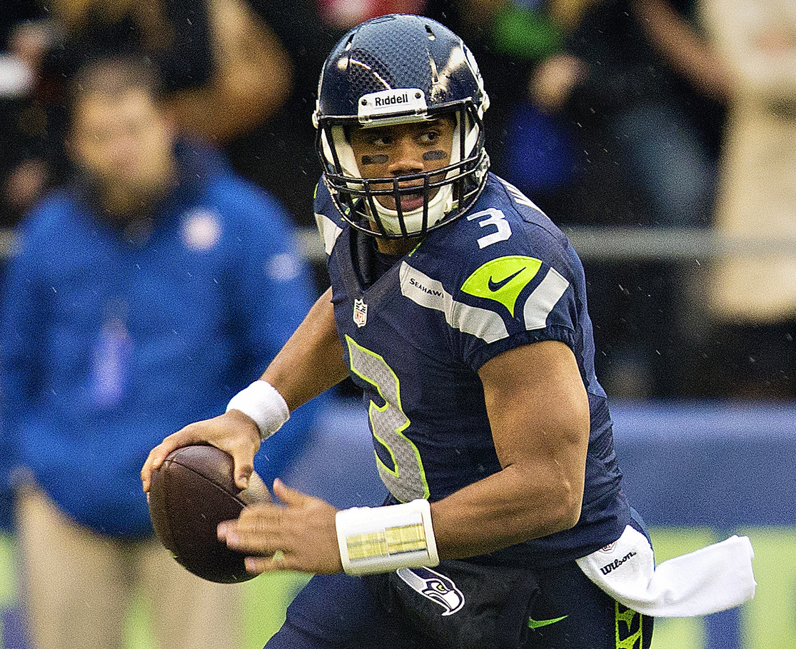 Russell Wilson vs. New York Jets, November 11, 2012